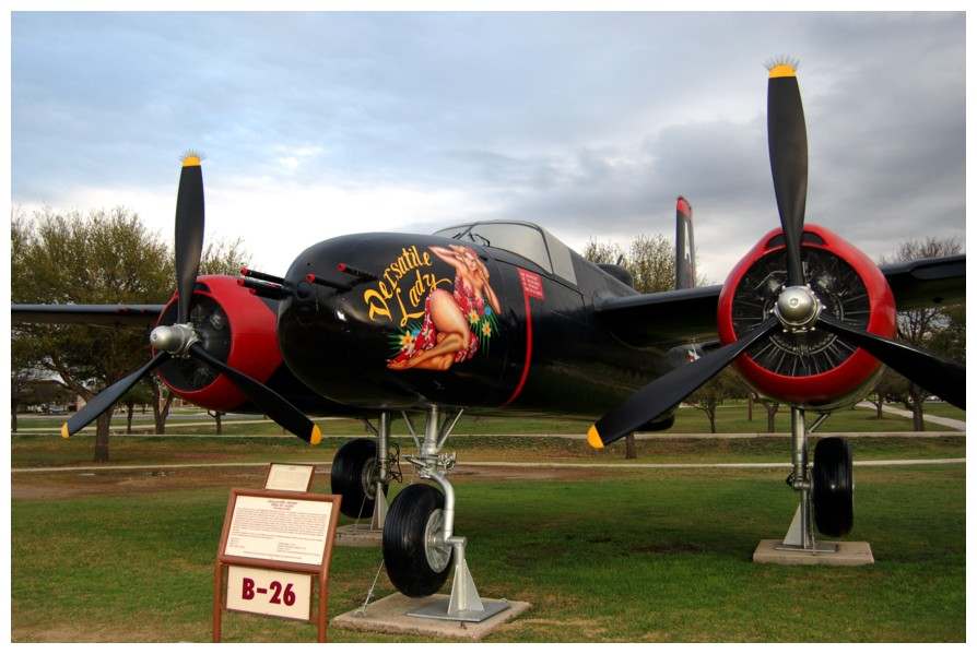 Front view of a Douglas B-26C "Invader" Serial No. 44-35918 (Formerly A-26C), "Versatile Lady." Lackland Air Force Base, San Antonio, Texas (March 2007). Photo by Peter Rimar. This image was taken in direct support of the Aviation WikiProject.